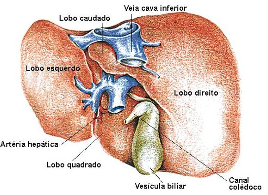 This image was copied from pt. The original description was: Fígado posterior. by Angeloleithold. Descrição Vista posterior de um fígado. Fonte Angeloleithold, acervo particular. Licença